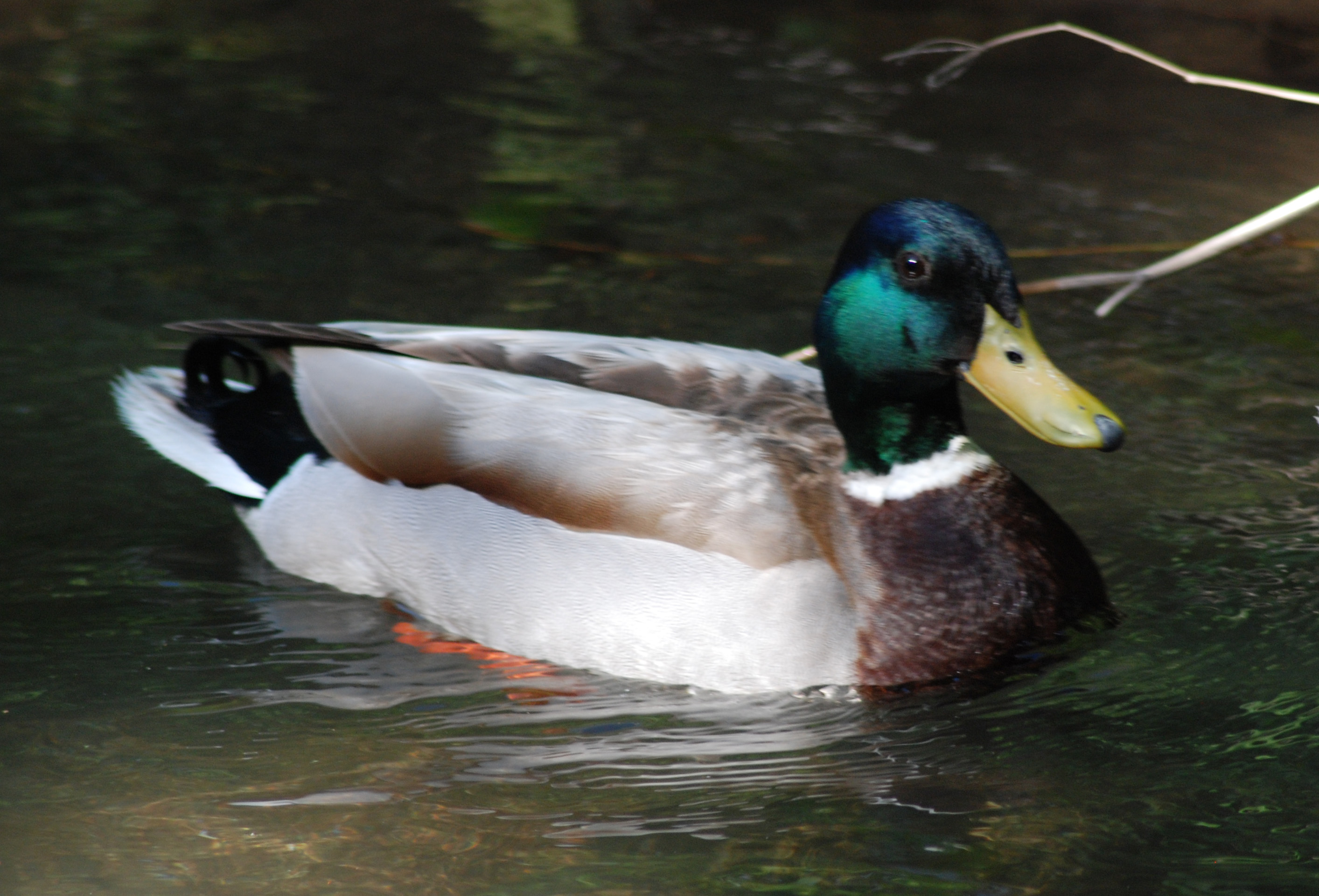 Mallard Drake on Adobe Creek